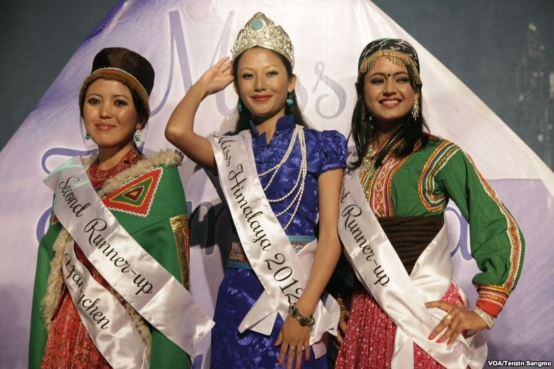 Newly crowned Miss Himalaya Rinchen Dolma in the middle with runner ups